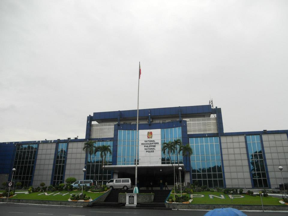 Camp Crame hq